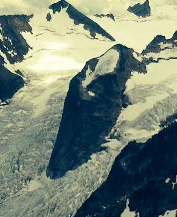 Hound's tooth Spire, Bugaboos, Purcell Range, British Colombia, Canada